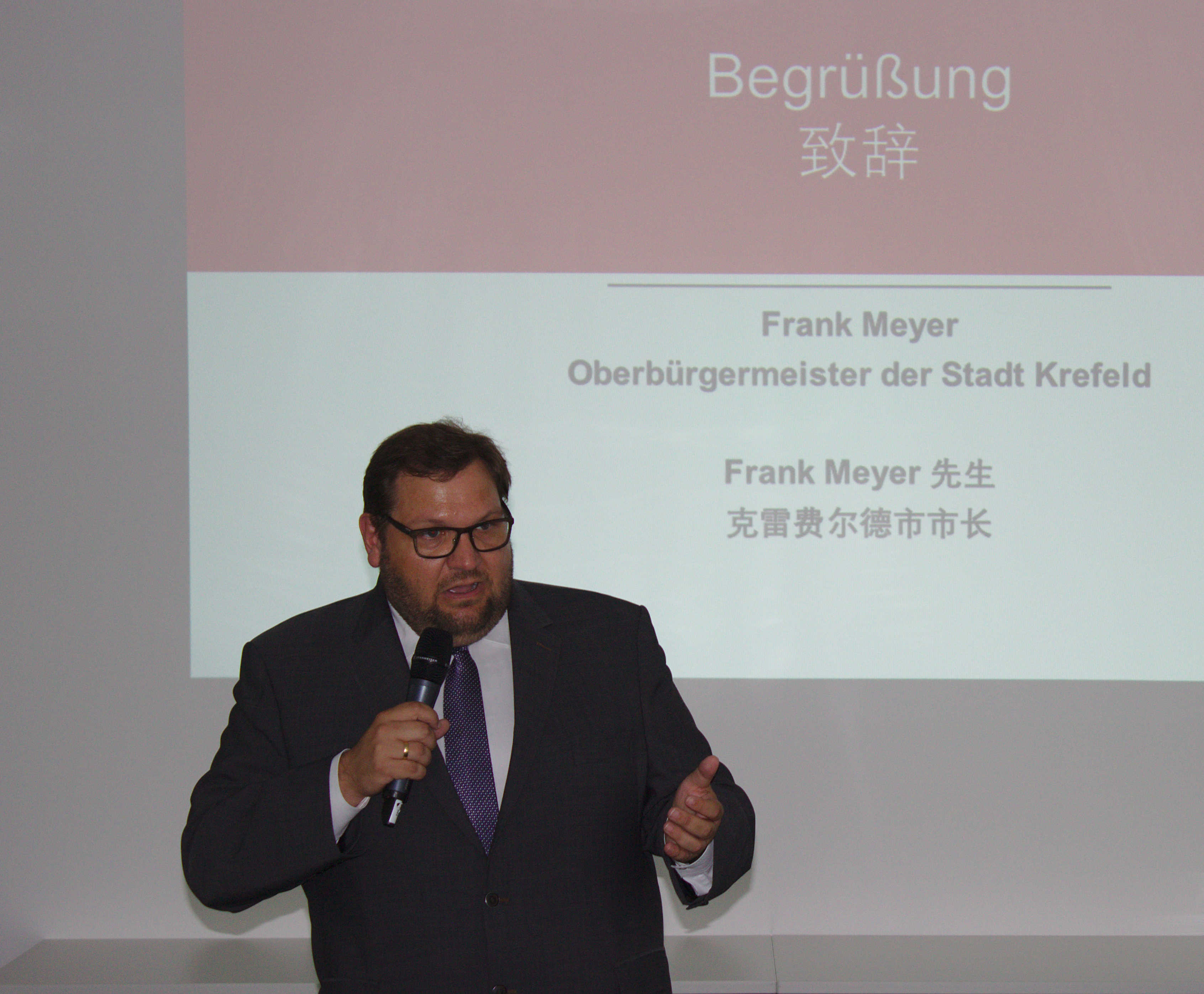 Mayor of Krefeld giving a welcome address at an info conference for Chinese investors at XCMG´s exhibition center in Krefeld